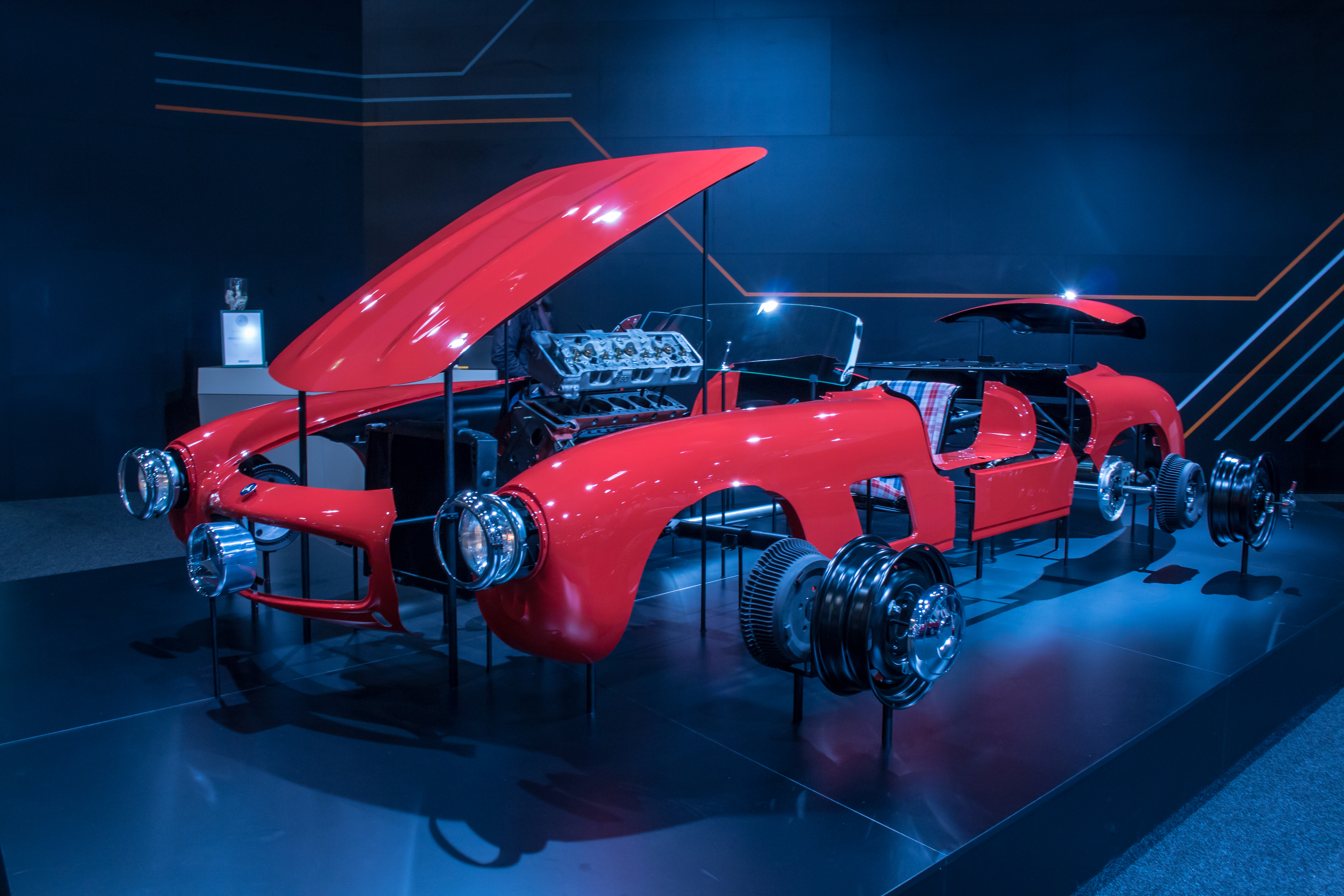 Mercedes-Benz, Techno-Classica 2018, Essen